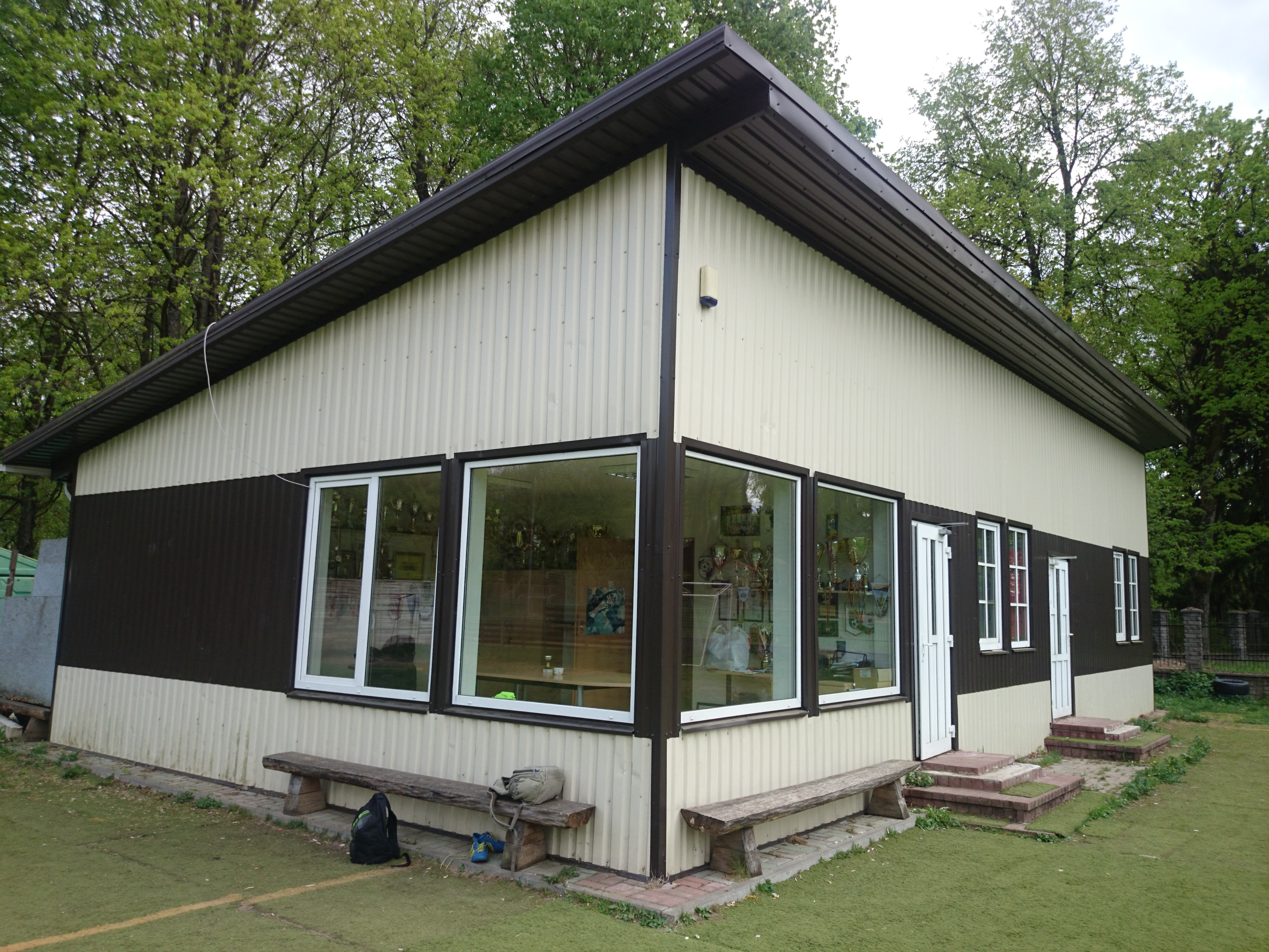 Naujoji Vilnia Stadium